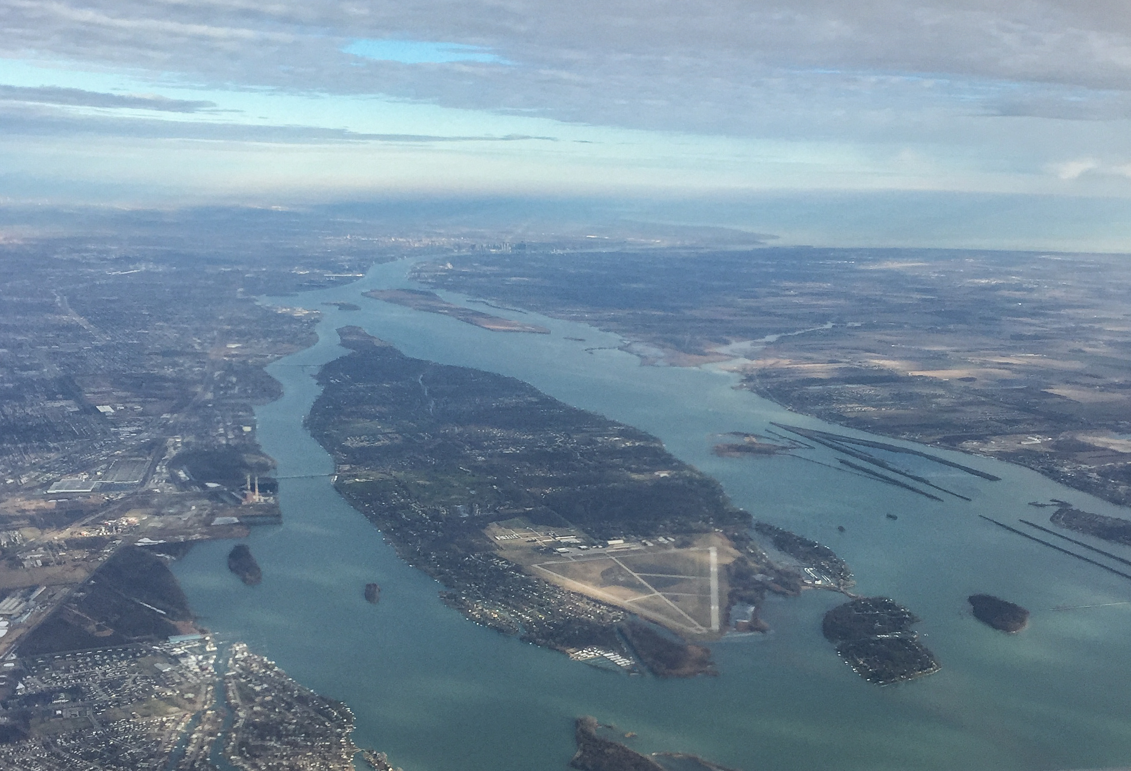 Aerial view of Grosse Ile in the Detroit River from the south, as viewed from an aircraft shortly after takeoff from Detroit Metropolitan Airport. Grosse Ile Municipal Airport can be seen at the southern end of the island.